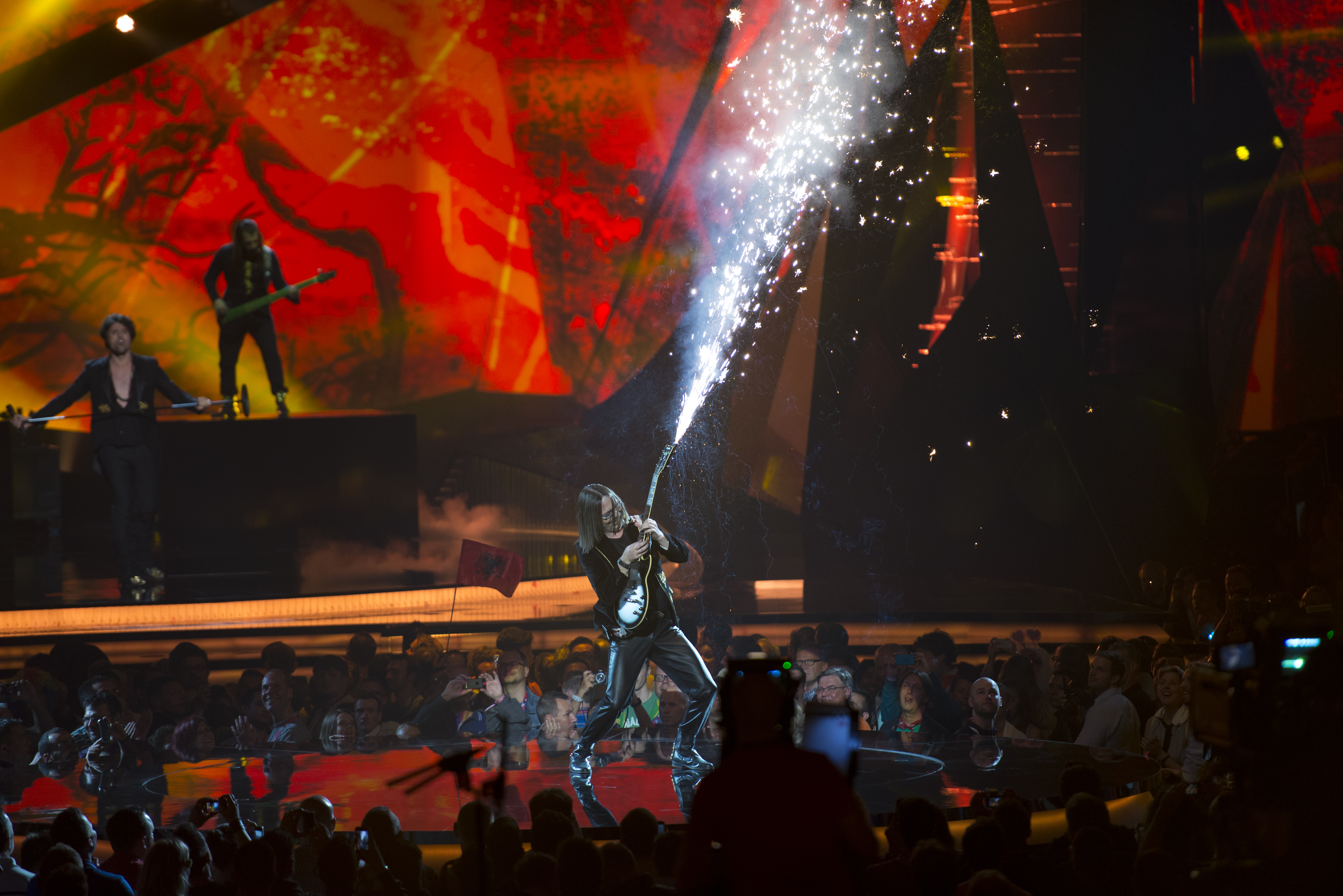 Adrian Lulgjuraj & Bledar Sejko from Albania performing their song in the second dress rehearsal for the second semi final of the Eurovision Song Contest 2013.